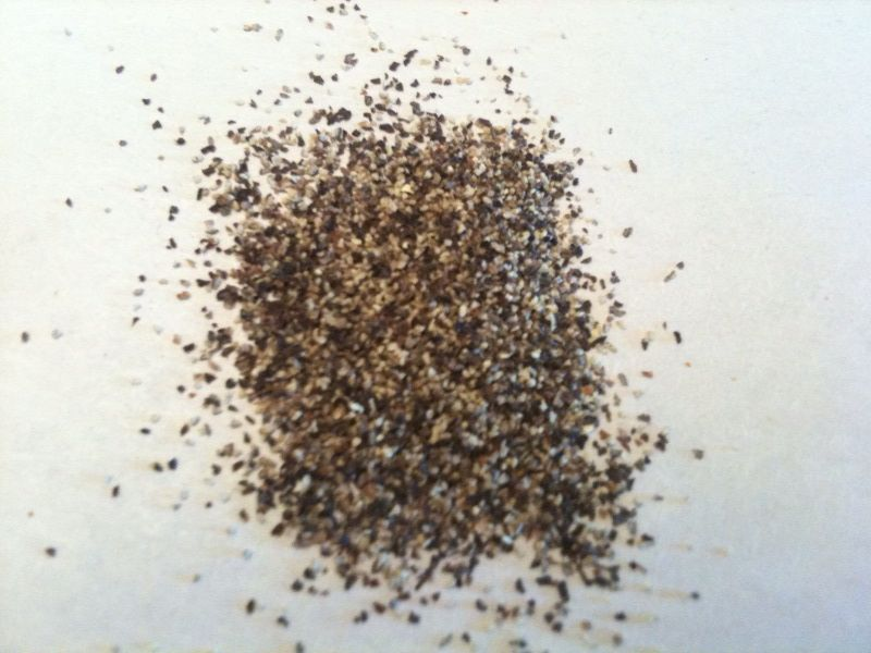 Grains of black pepper